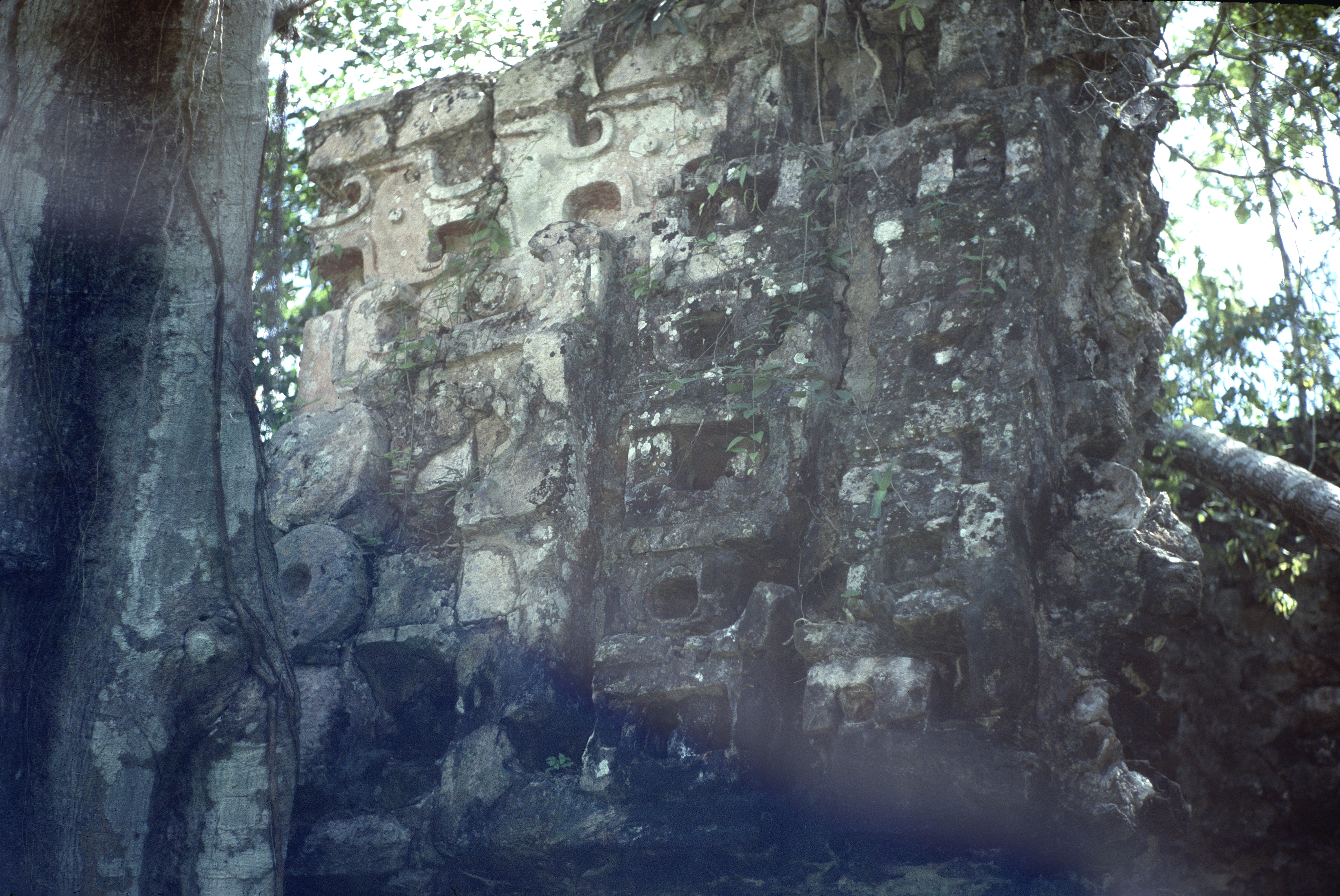 Macoba, Campeche, Mexico: Structure 4